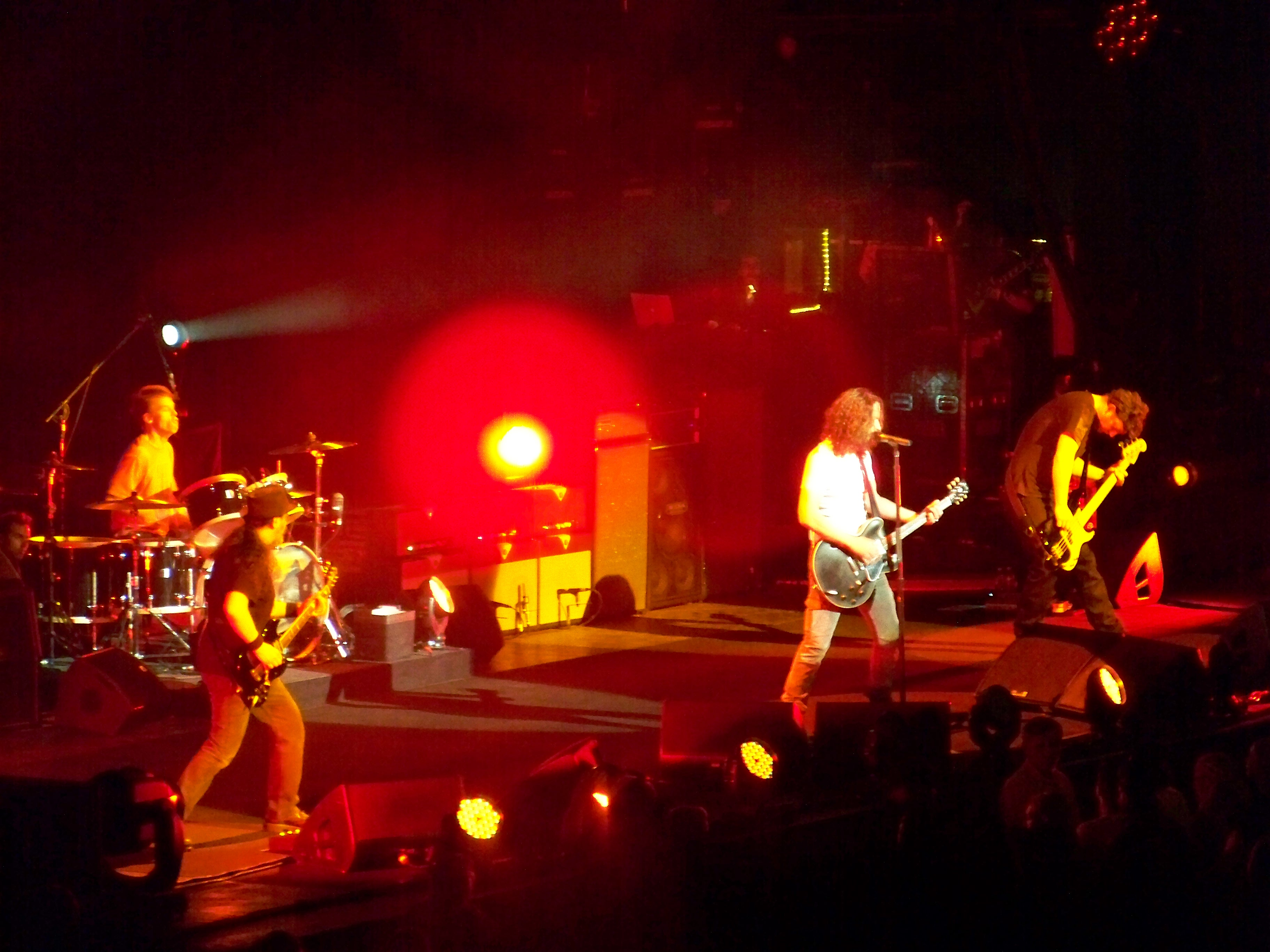 Soundgarden at Great Woods (Comcast Center) in Mansfield, MA, 7/10/2011.